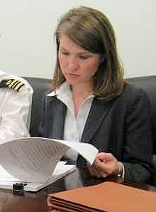 Rebecca Snyder, one of Omar Khadr's lawyers before his Guantanamo military commission